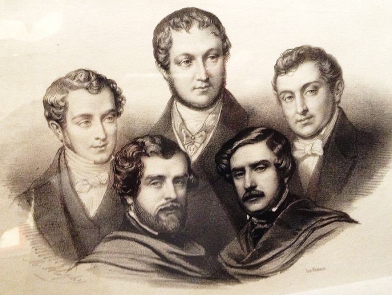 Rossini-Bellini-Ricci-Mercadante-Donizetti-5 composers